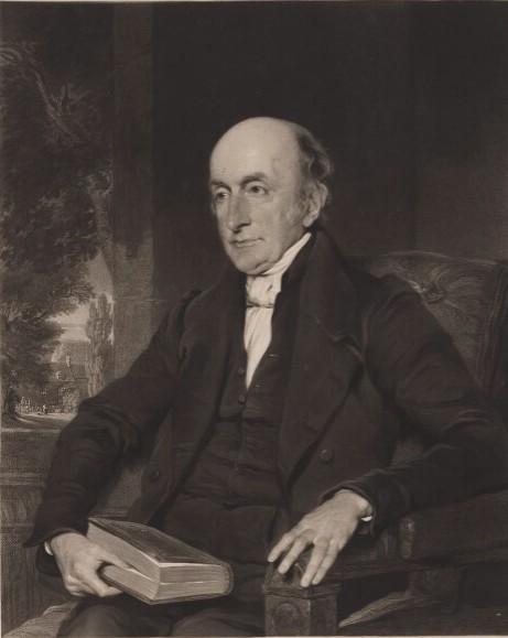 Portrait of William Field (1768–1851), English Unitarian minister.